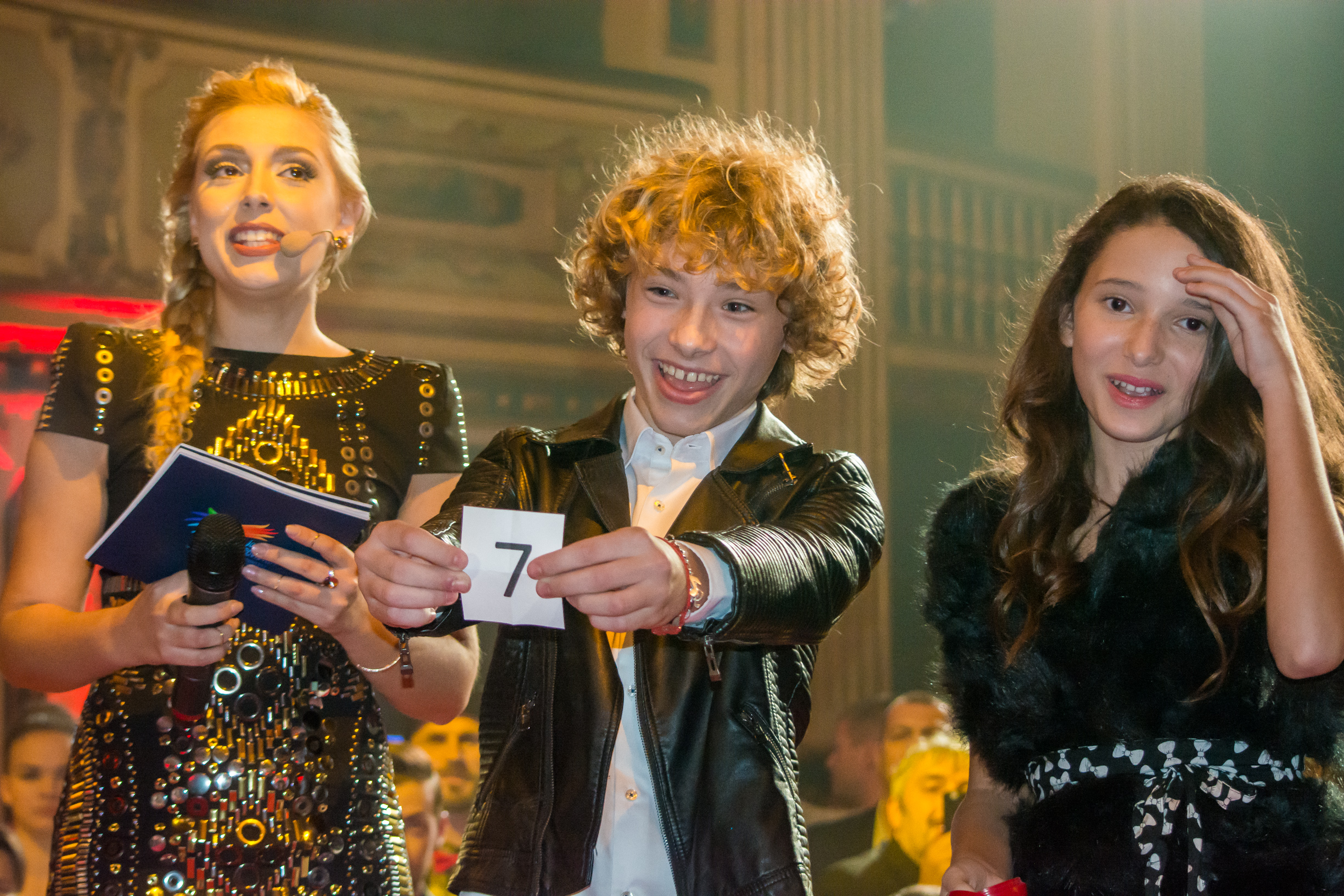 JESC 2016 draw (Sher and Tim)